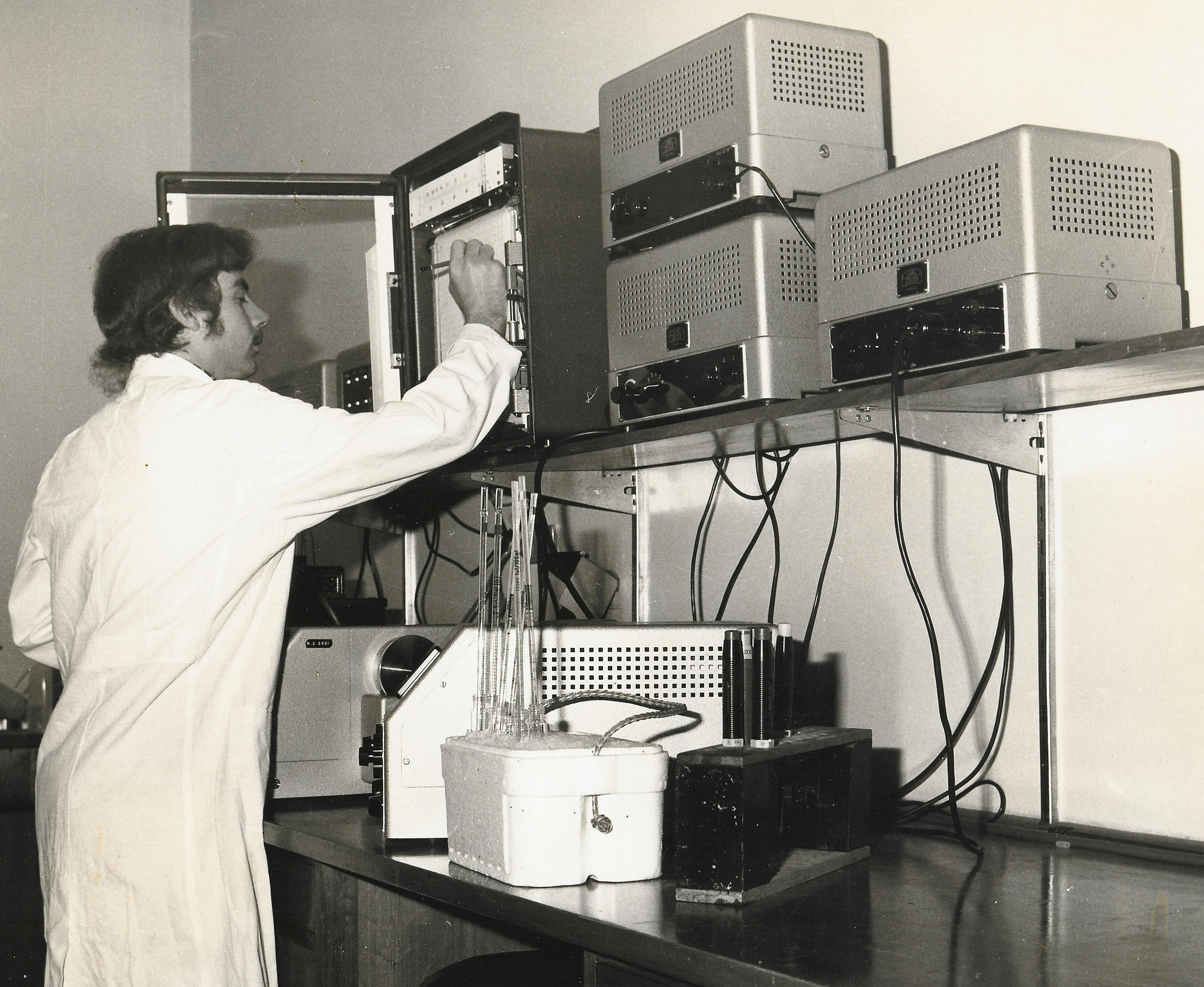 Scientific instruments at the Nutritional Biochemistry laboratory (1960?)